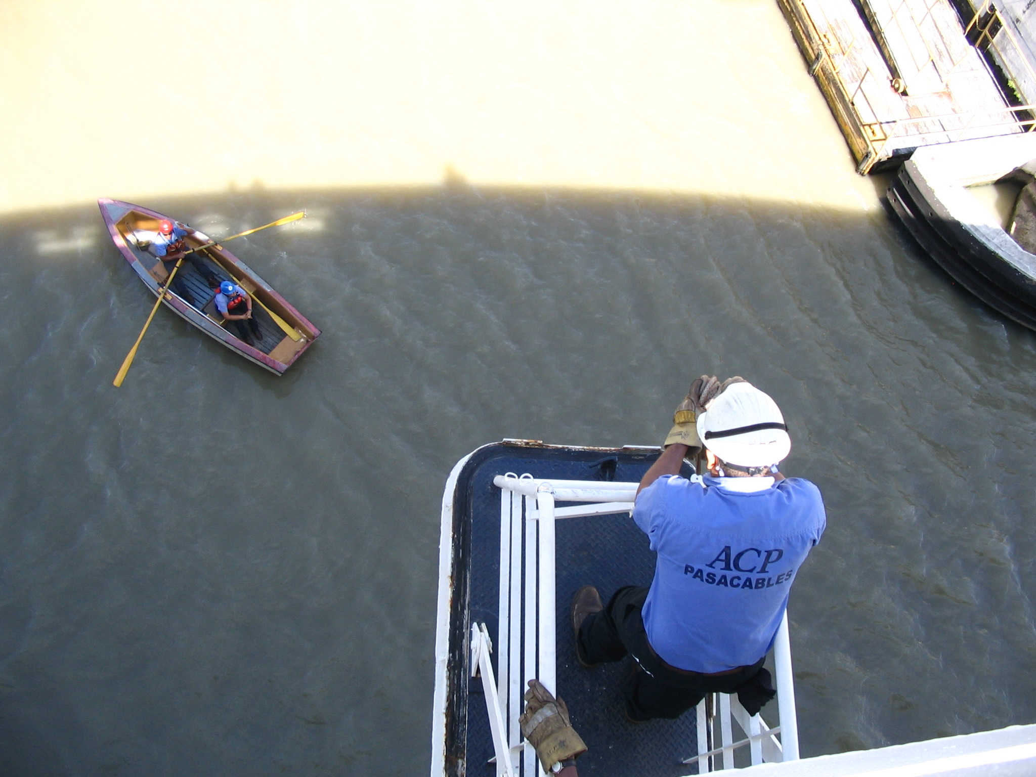 Panama Canal Authority employees at work at the entrance of the Pedro Miguel Locks. Photograph taken aboard the MS Maasdam.